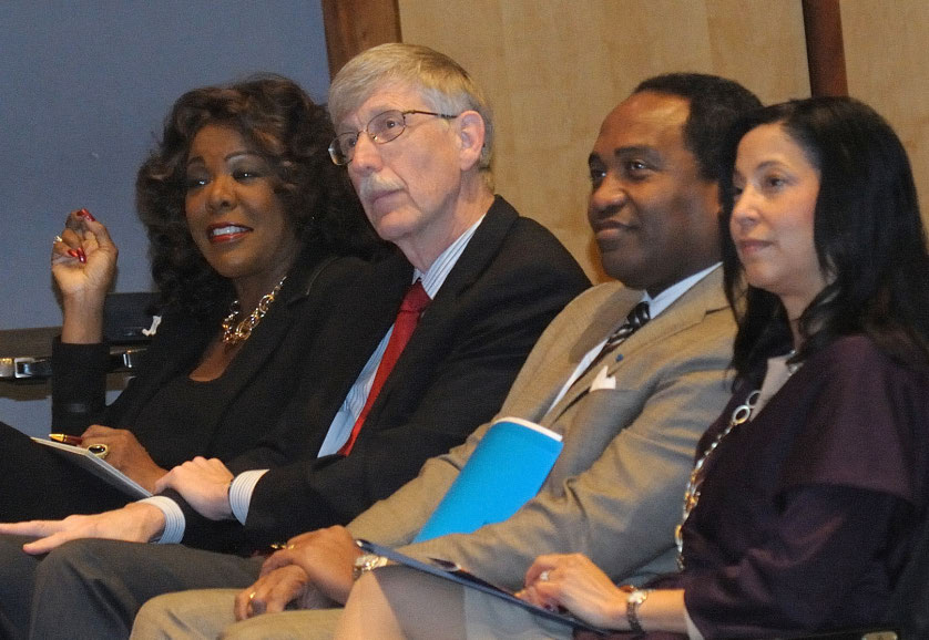 News anchor JC Hayward attends NIH’s African-American History Month observance. Among participants at the event are (from l) Hayward, NIH director Dr. Francis Collins, NIDDK director Dr. Griffin Rodgers and ORWH acting director Dr. Janine Austin Clayton.